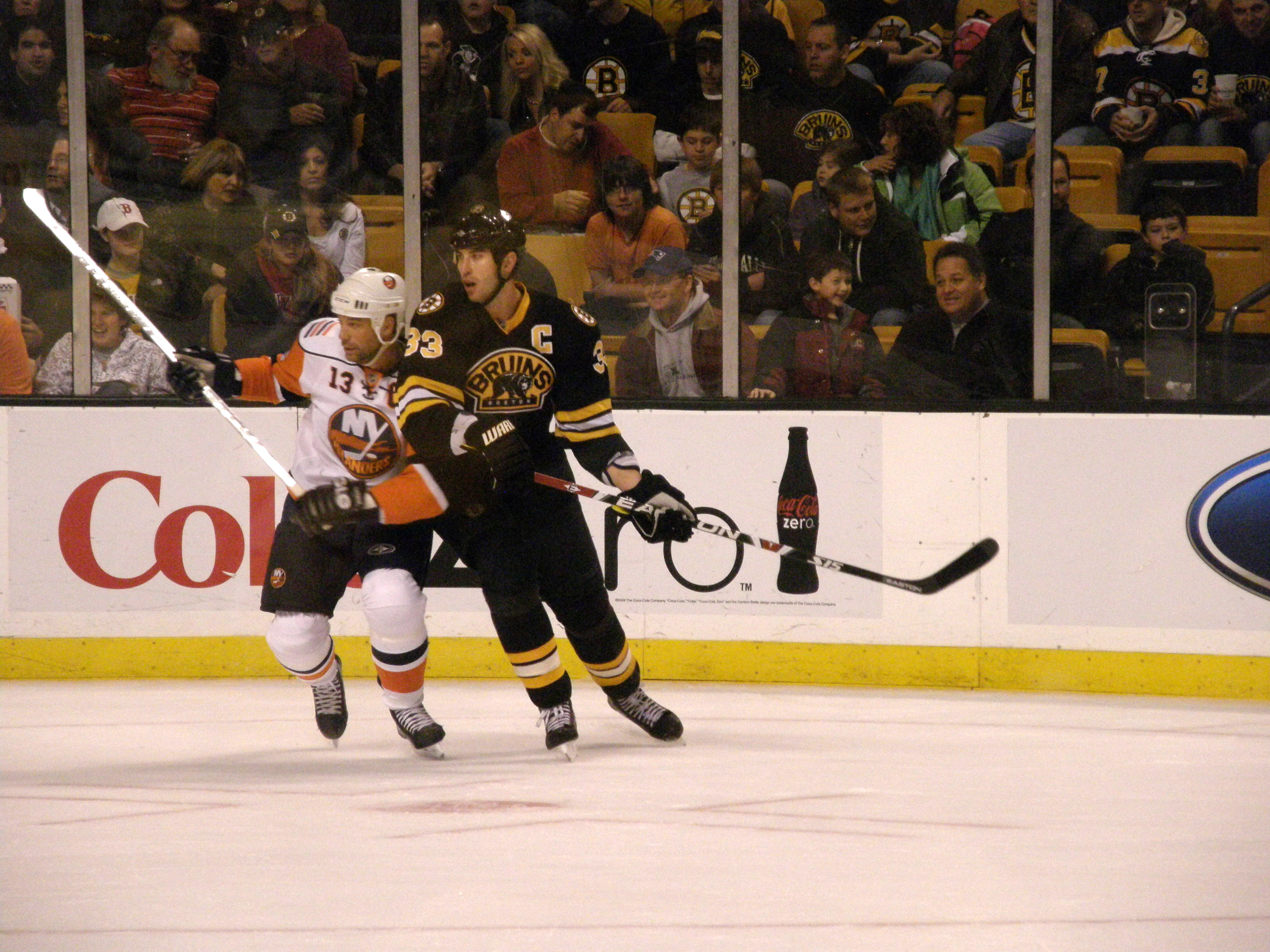 Captain Smash: 13 Bill Guerin and 33 Zdeno Chara